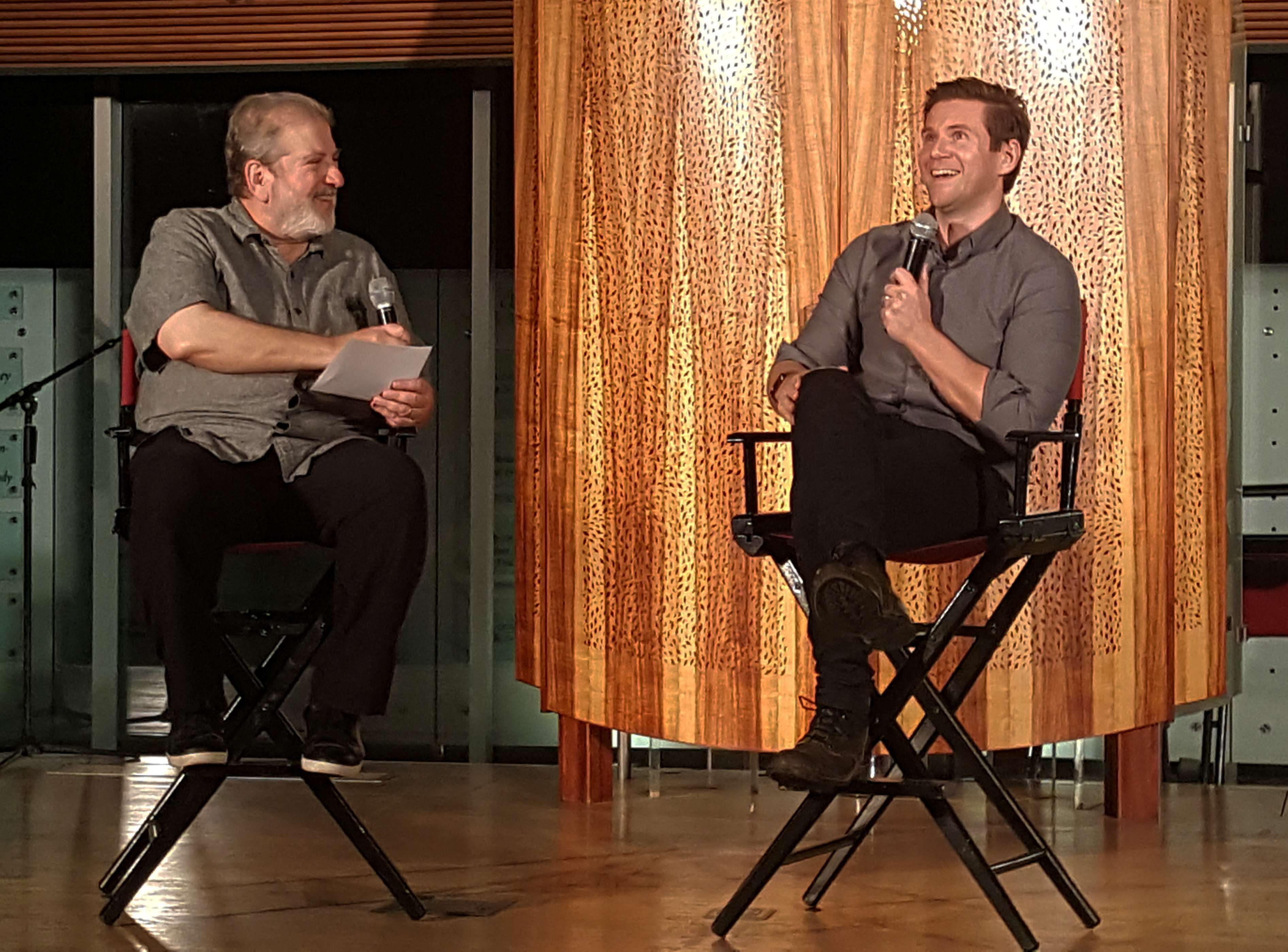 Allen Leech is interviewed by Scott Tallal at the Malibu Film Society after the showing of Downton Abbey. Malibu Jewish Center & Synagogue. photo: Don Ramey Logan